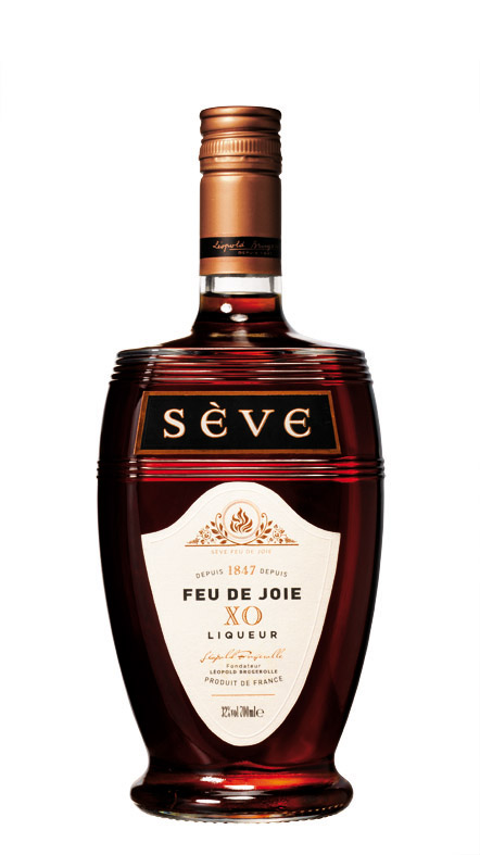 Sève Feu de Joie